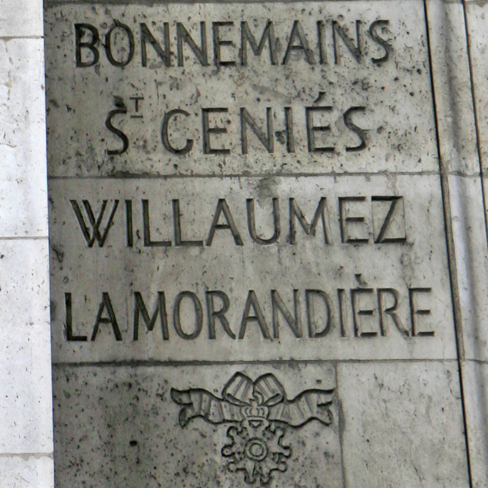 Detail from File:Arc de Triomphe mg 6840.jpg